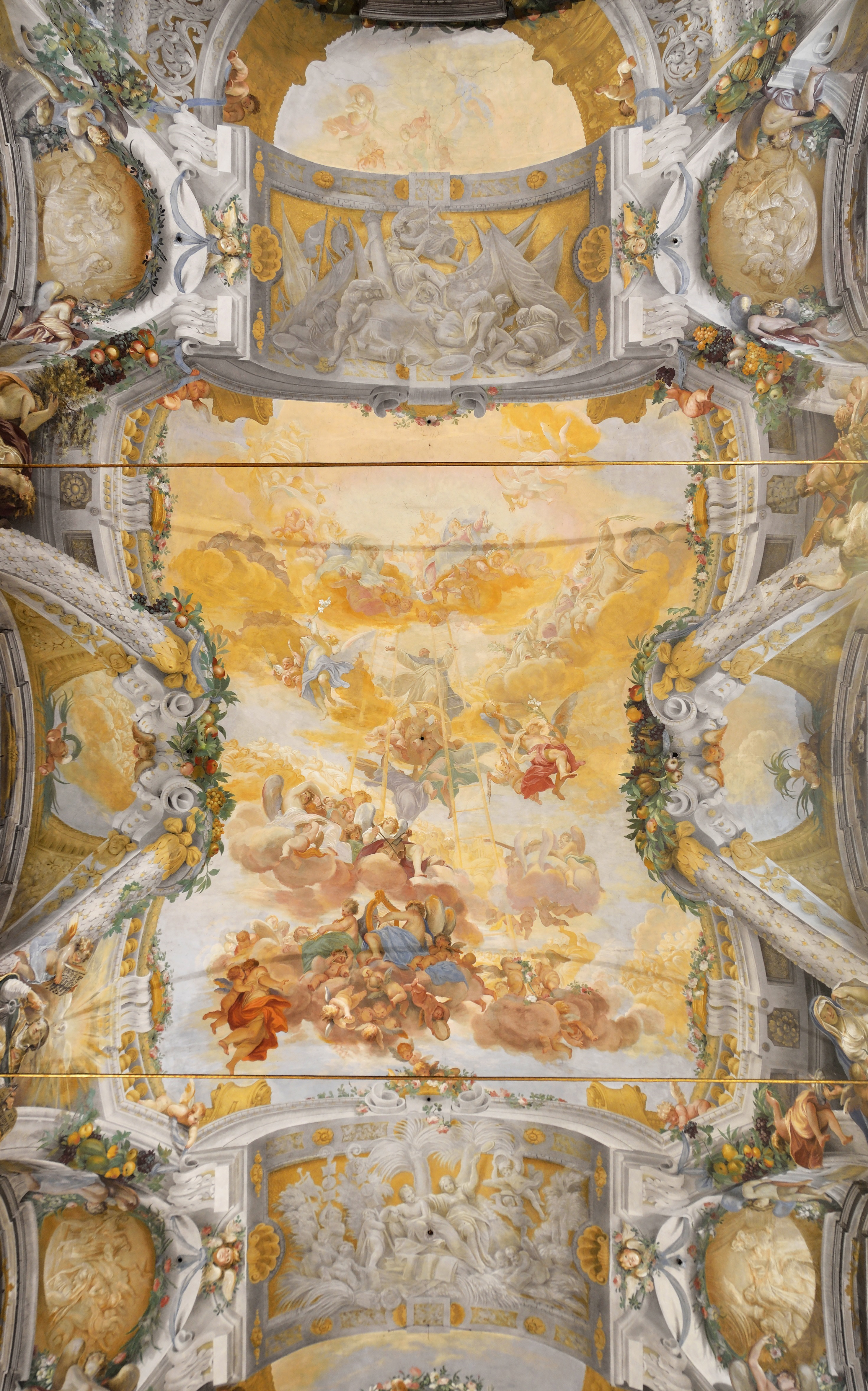 The Apotheosis of St. Dominic